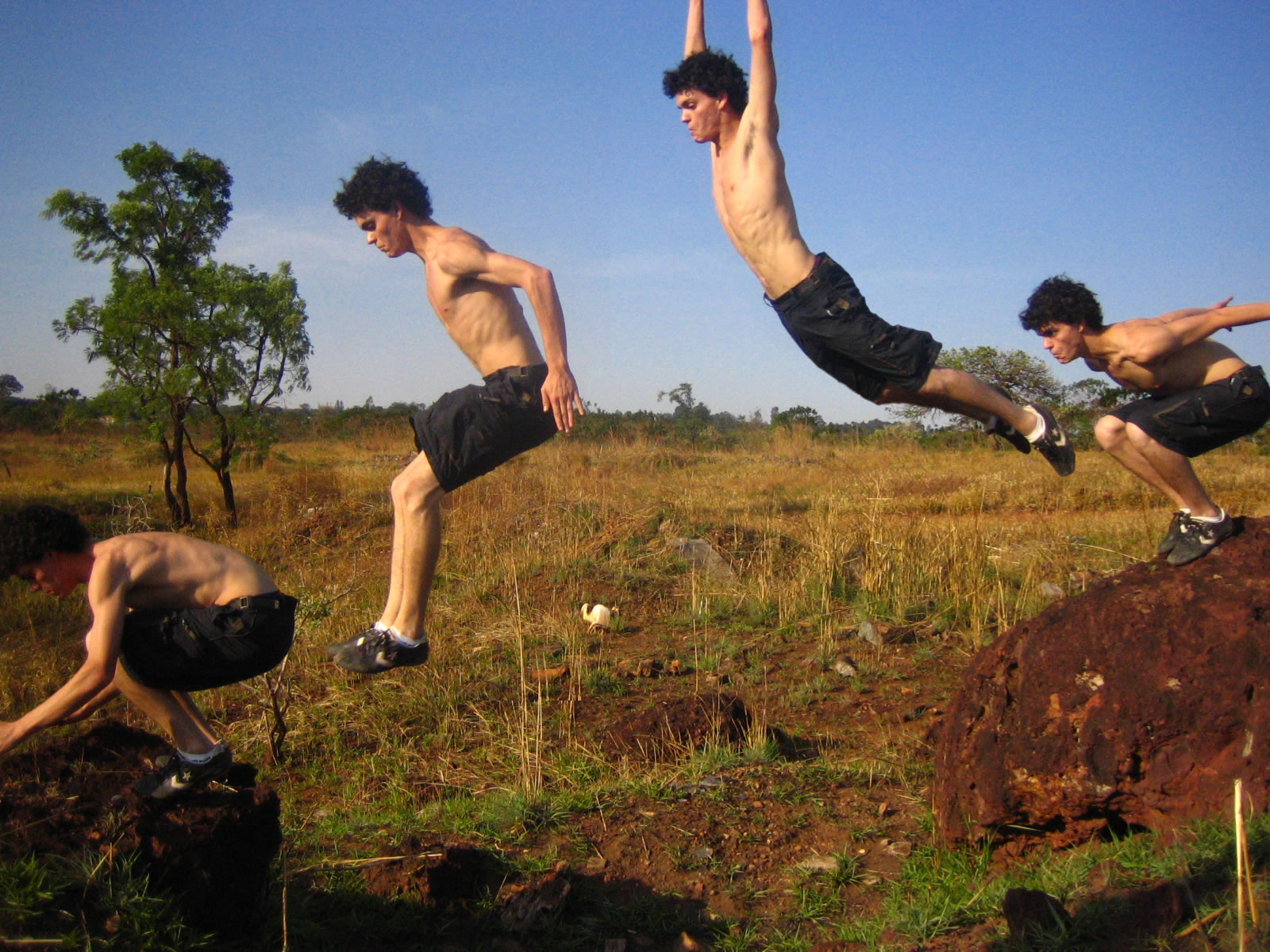 ParkourEstágios do salto de precisão